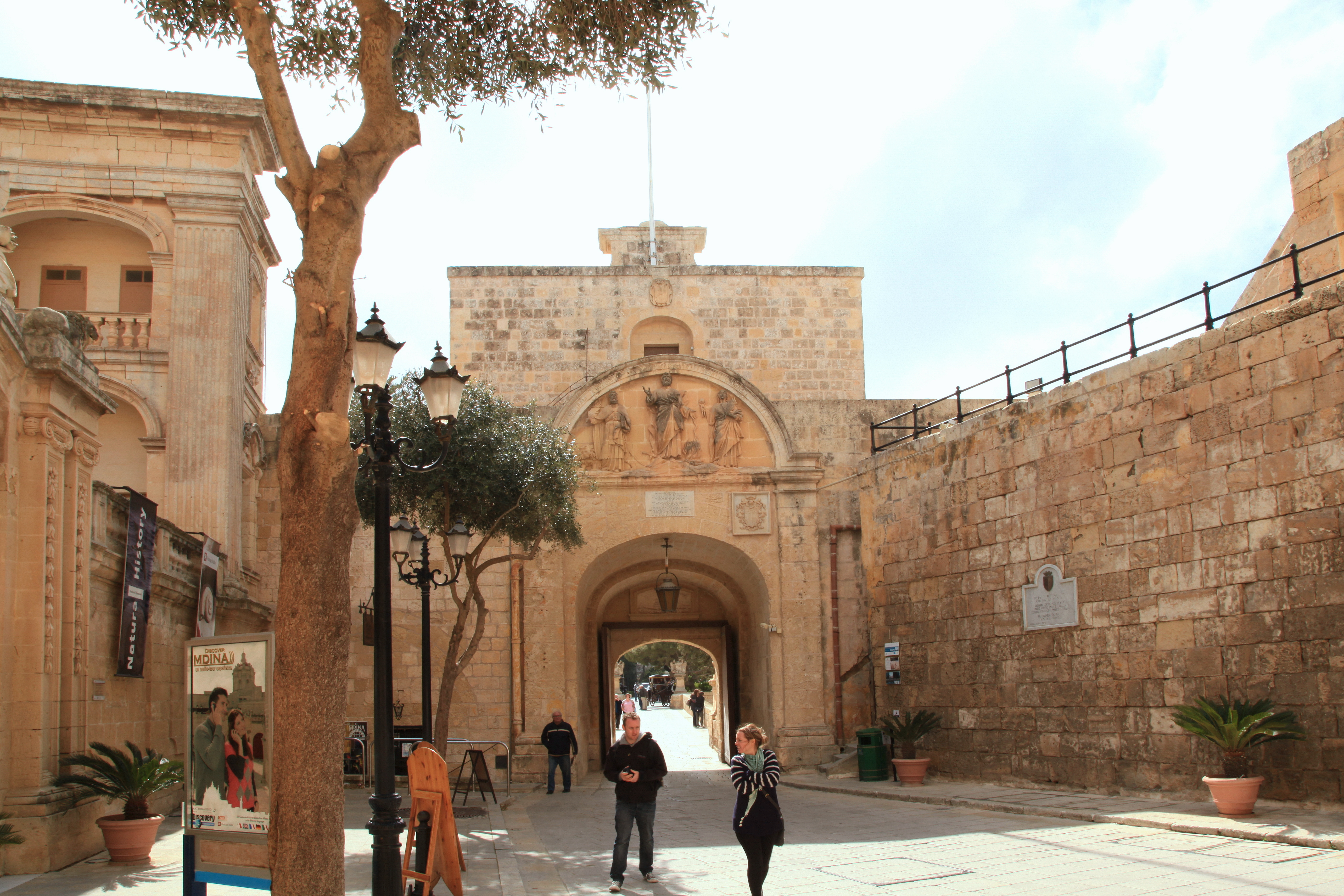 Pjazza San Publiju and Mdina Main Gate in Mdina, Malta